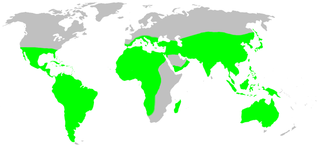 Filistatidae habitat distribution, extended by Peter Coxhead to include the Mediterranean (boundaries unclear), Malaysia and Namibia, based on the World Spider Catalog at as of January 2016. Original based on the World Spider Catalog 7.0. Original note: This is not a precise rendering of the distribution! If you have better information, please replace this map, or send me the info, and I will redraw it.